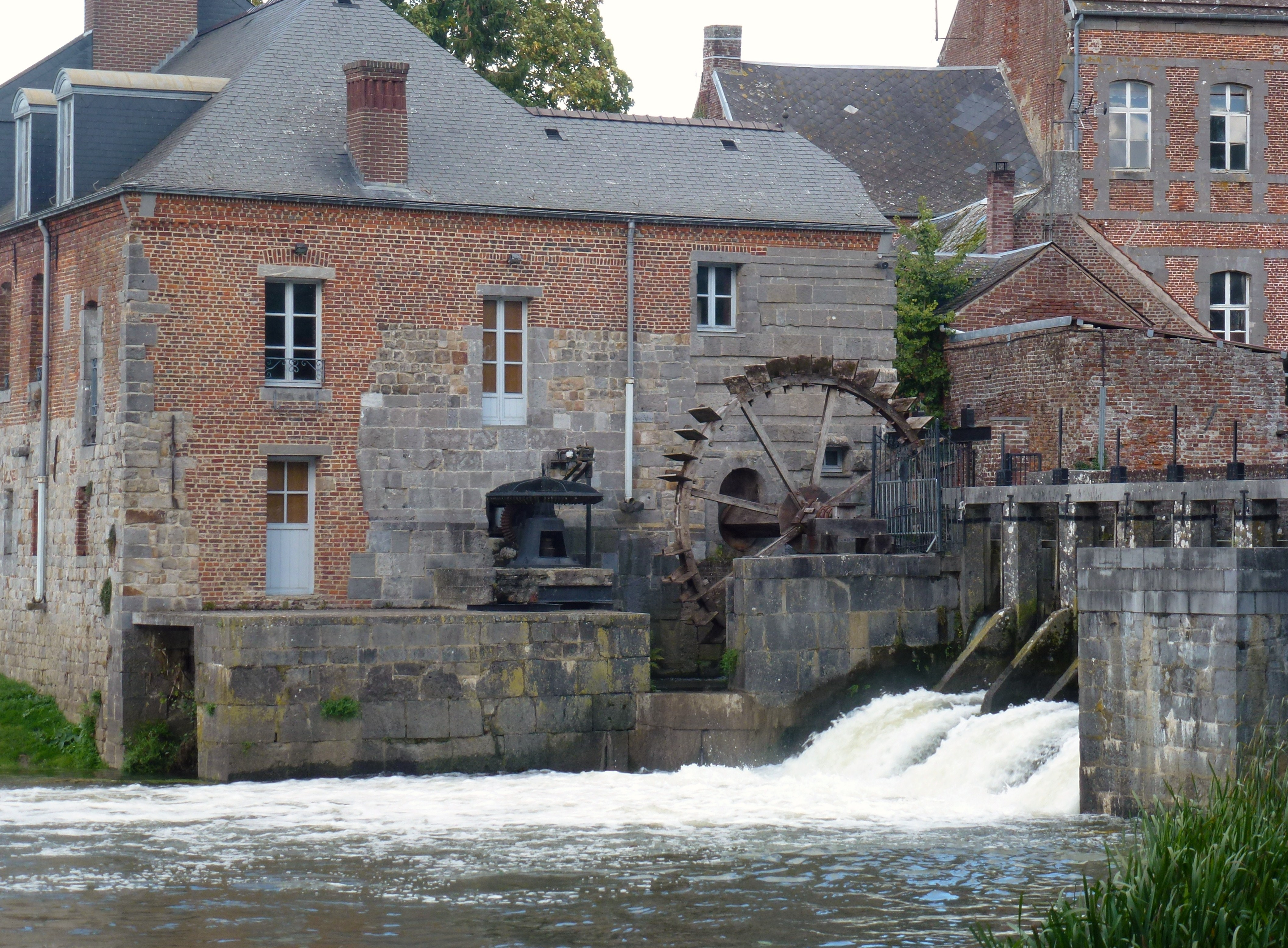 Watermills in Nord Abbaye de Maroilles in Nord, France .